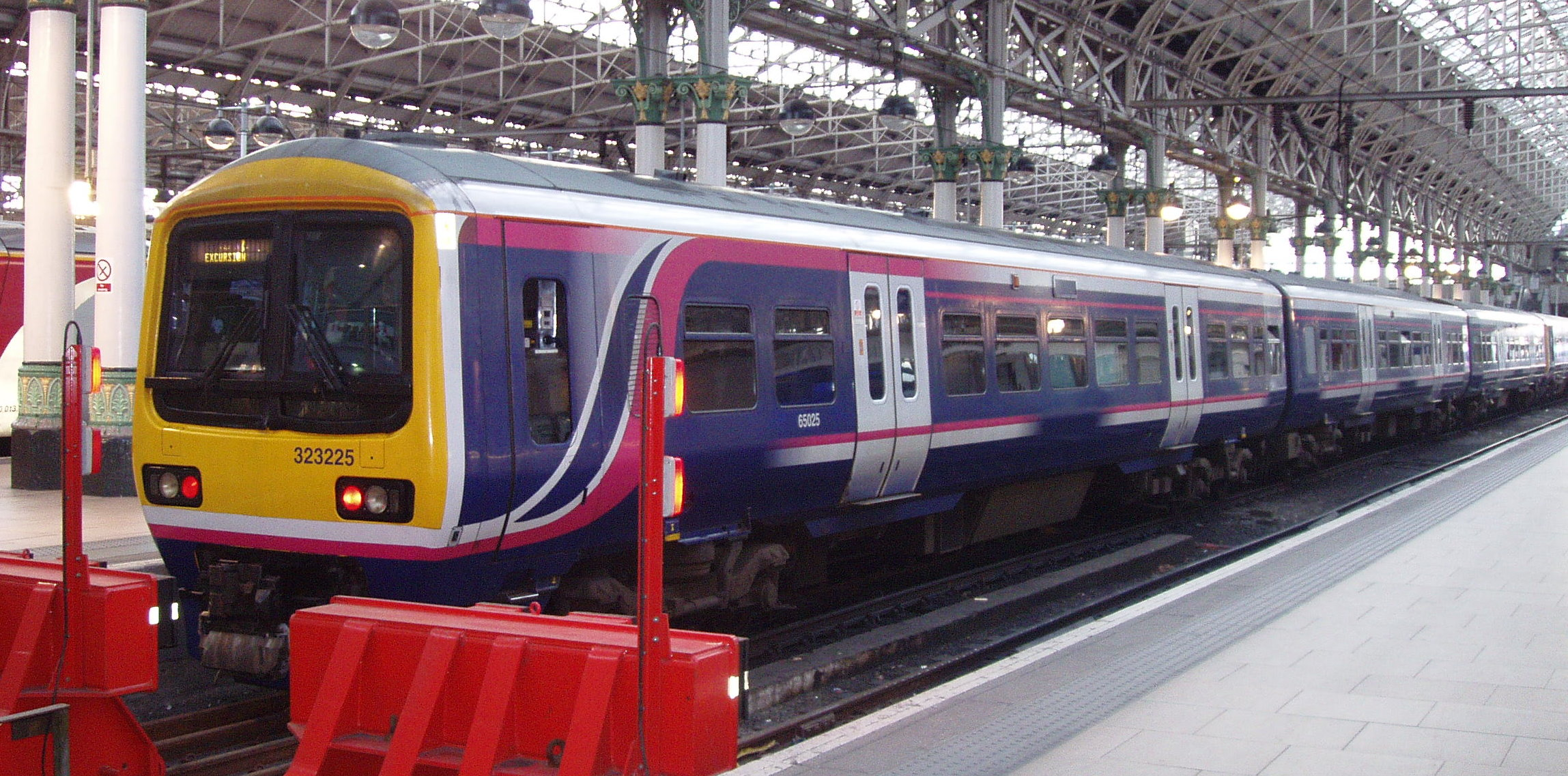 323225 at Manchester Piccadilly